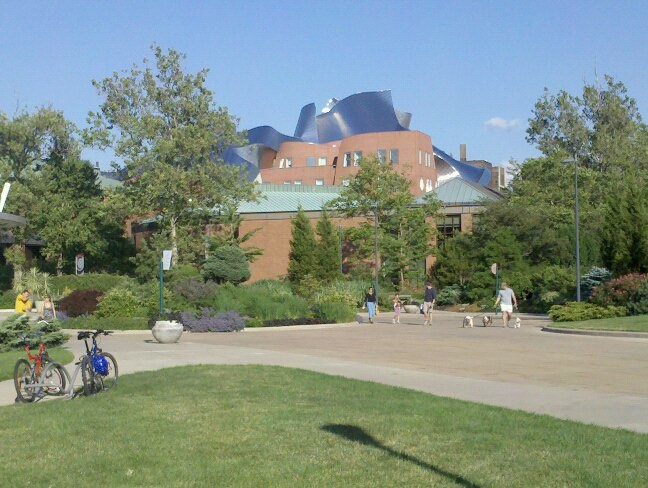 Law school building, with Peter B. Lewis building in the background